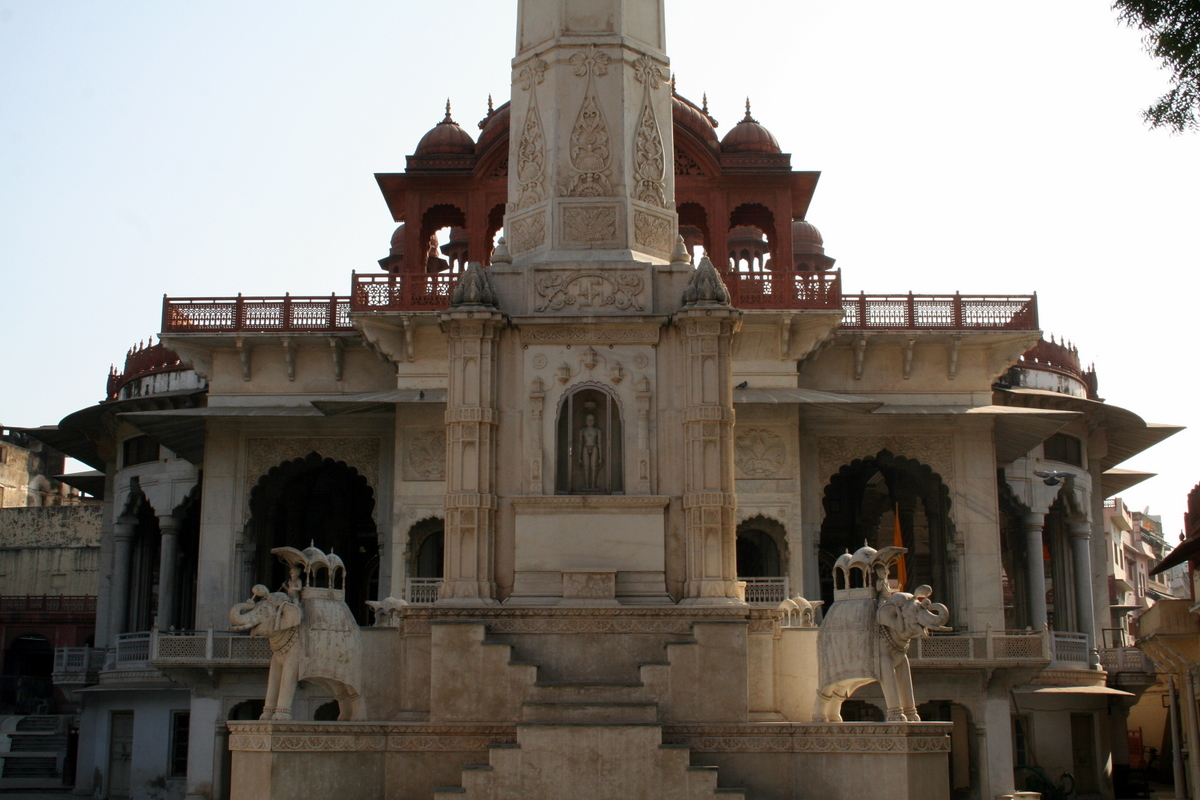 The renowned Nasiyan Jain Temple is to be found at Prithviraj Marg in Ajmer, Rajasthan. After the temples of Ranakpur and Mount Abu, Nasiyan temple is regarded as one of the best Jain temples in Rajasthan. Built in 1865, Nasiyan Temple is also known as Lal Mandir (Red Temple). Centrally located in Ajmer, the temple can be reached easily from anywhere in Rajasthan. Nasiyan Digambar Jain Temple is dedicated to Lord Adinath, the first Jain 'tirthankara'. The two-storied structure of Nasiyan Temple is divided into two parts, where one is the worship area comprising the idol of Lord Adinath and the second is the museum including a hall. The museum hall gets the major attention due to its mind blowing interiors made up in gold. This exquisite museum depicts the five stages (Panch Kalyanak) in the life of Lord Adinath, in the stature of statues. With the dimensions of 40 x 80 feet, the hall is adorned with Belgium stain glass, mineral color paintings and stain glasswork.